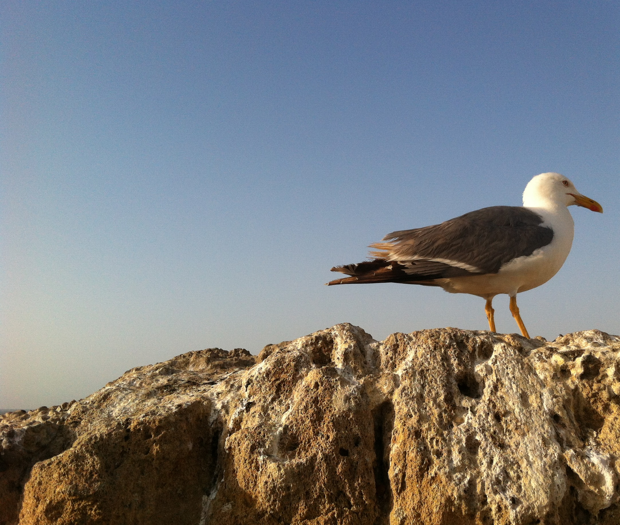 Yellow-legged Gull Larus michahellis in Essaouira, Morocco